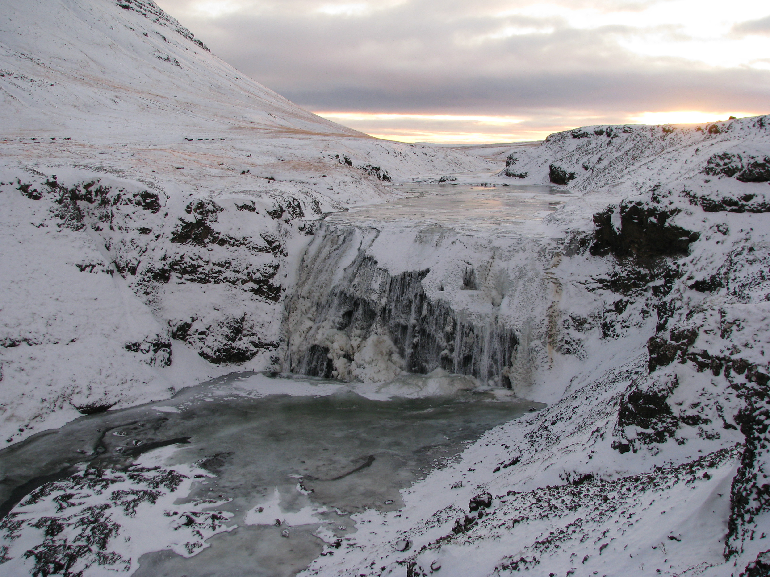 Þórufoss, a waterfall in southwest Iceland.